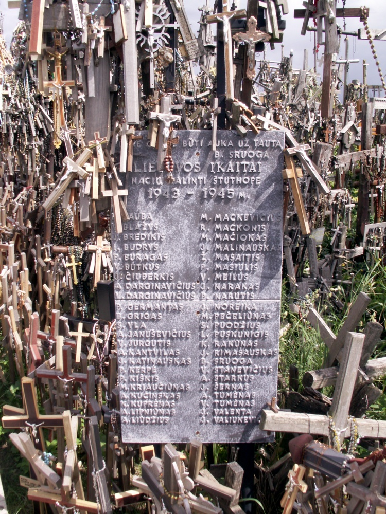 List of lithuanians who died in Stutthof concentration camp on Hill of Crosses